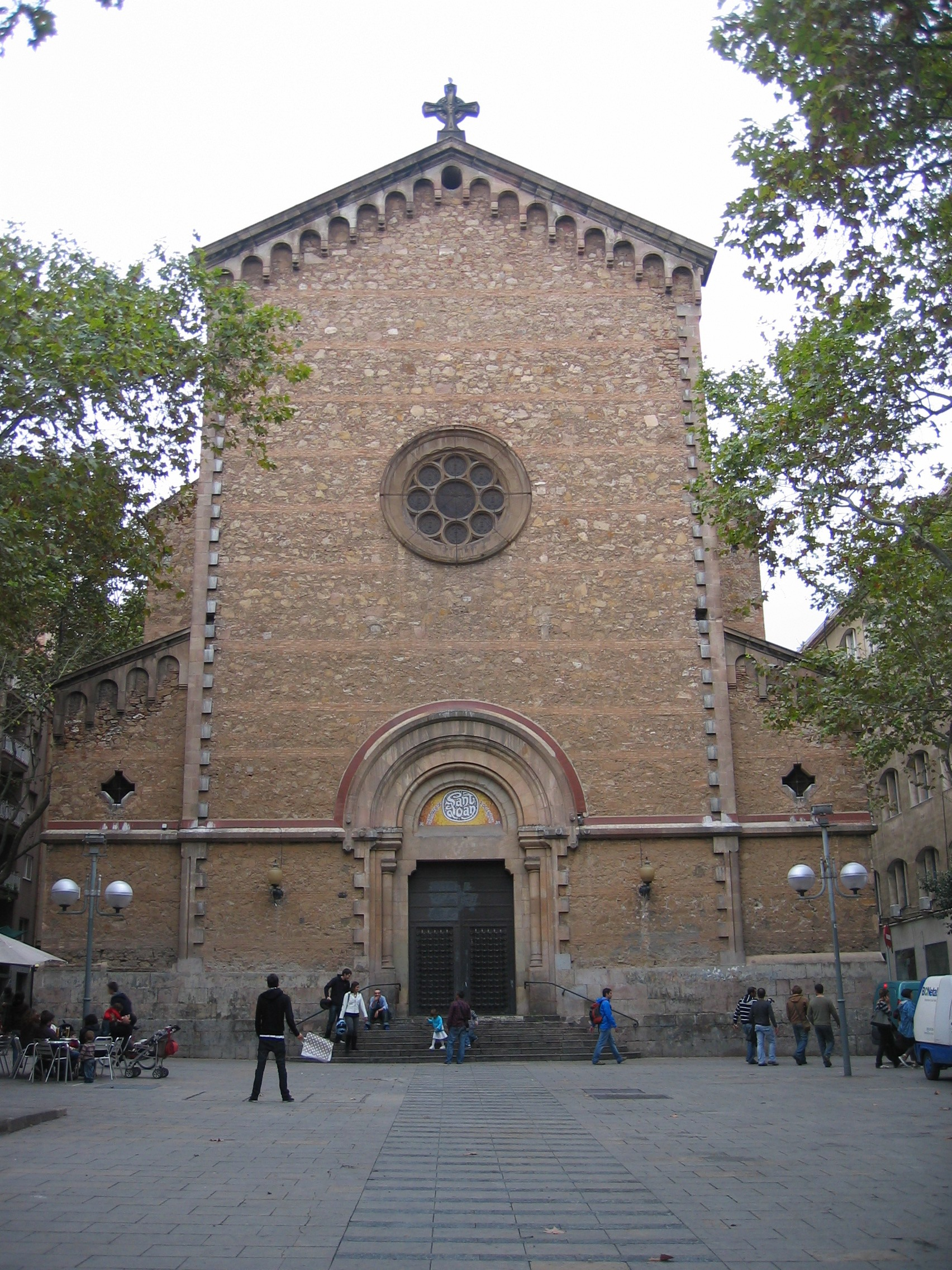 Sant Joan's churche in Barcelona.